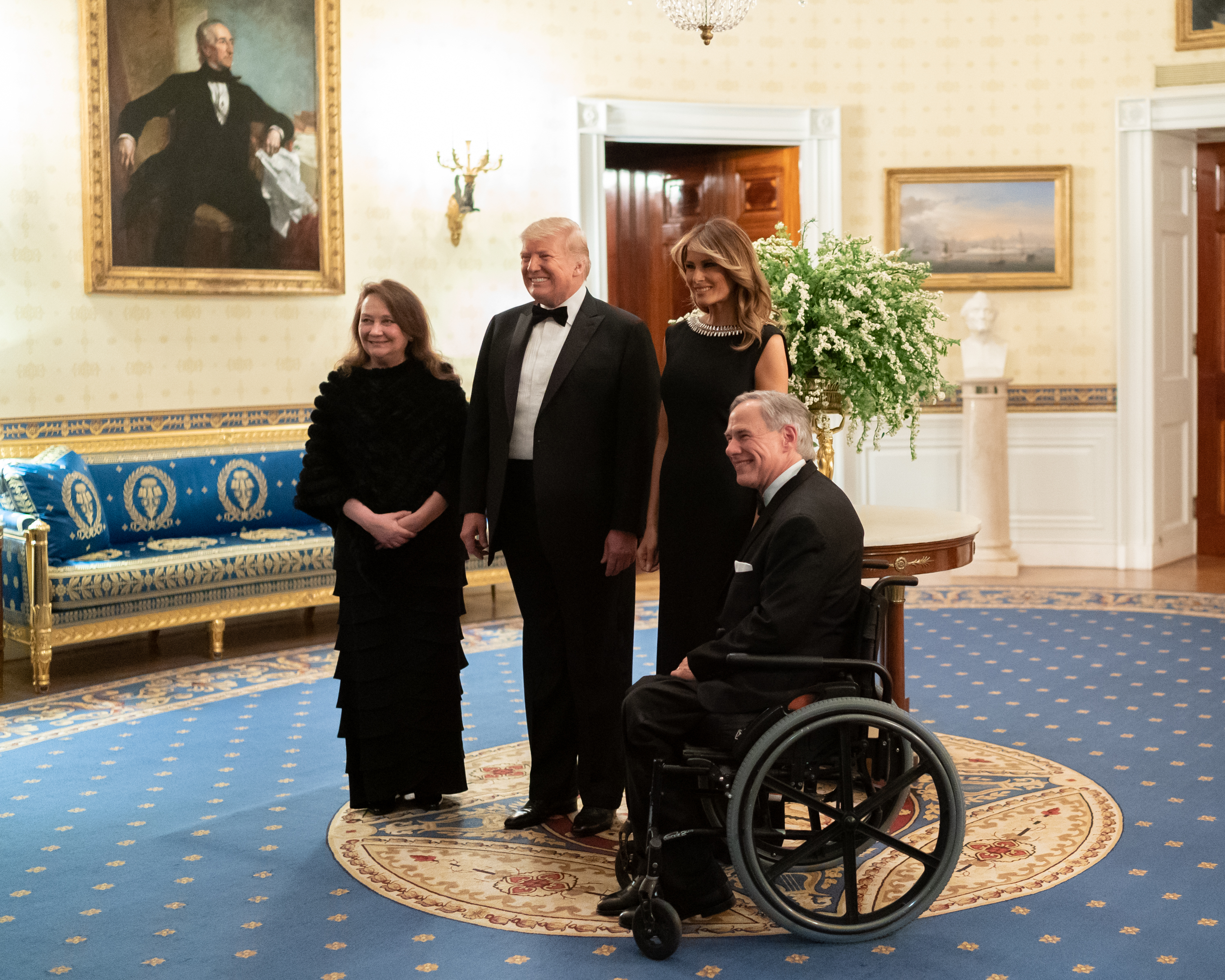 President Donald J. Trump and First Lady Melania Trump pose for a portrait with Texas Governor Greg Abbott and his wife Mrs. Cecilia Abbott in the Blue Room of the White House Sunday, Feb. 9, 2020, prior to attending the Governors’ Ball. (Official White House Photo by Andrea Hanks)